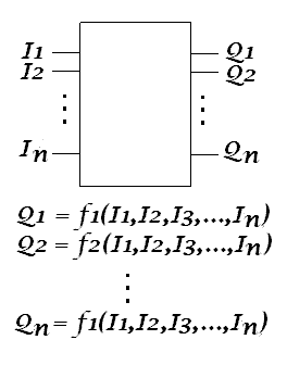 The structure of Combinational logic